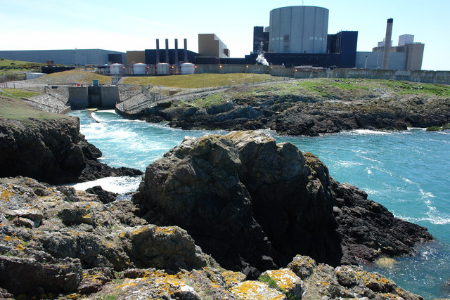 Outfall from Wylfa Power Station A favourite spot for fishermen.